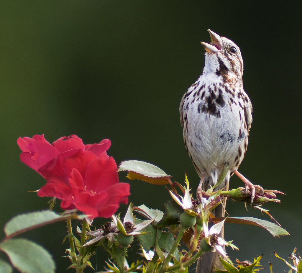 A Song Sparrow singing at Battery Park, New Castle, Delaware, USA.